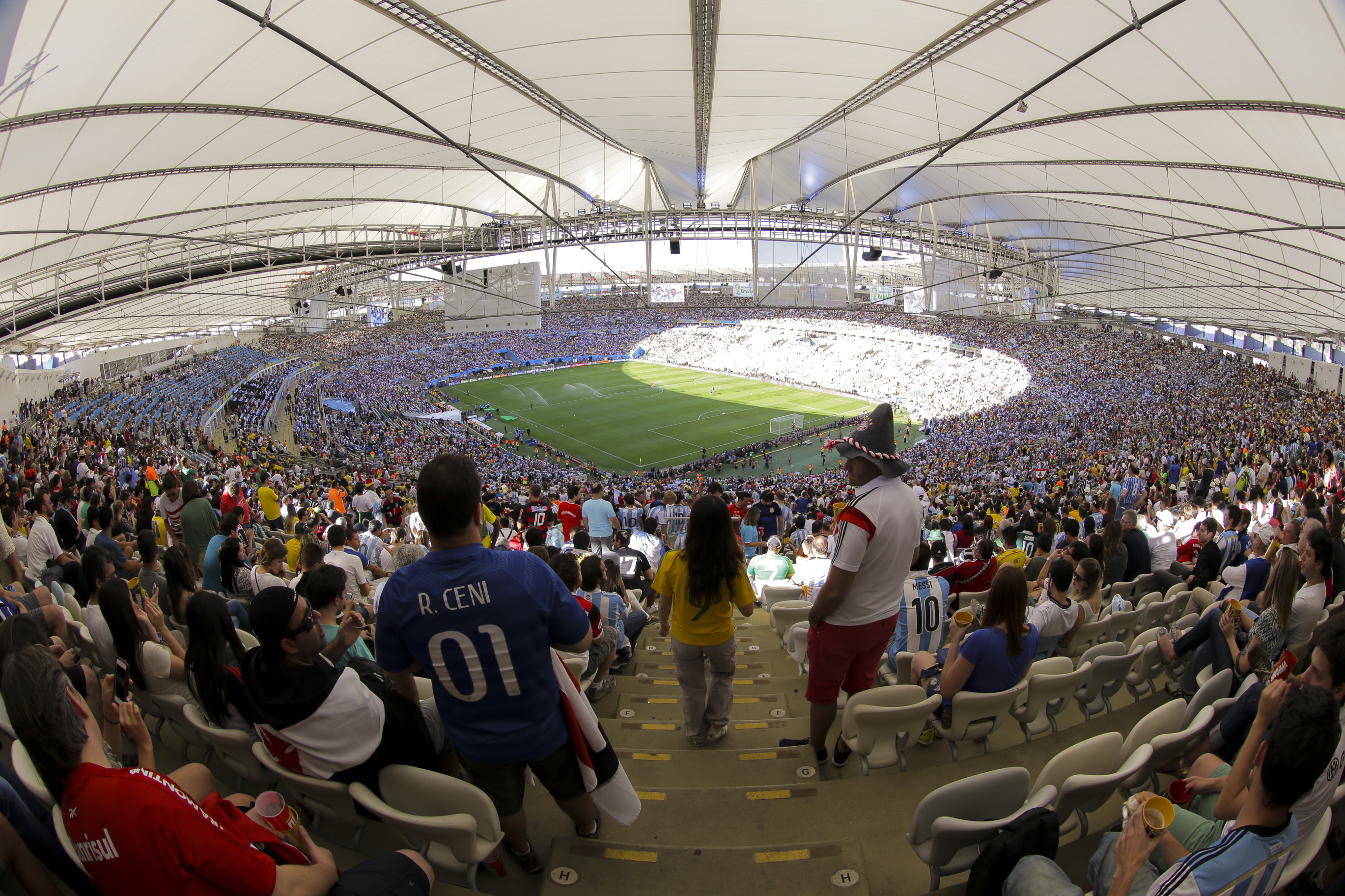 The final match of World Cup 2014 between Germany and Argentina 2014-07-13